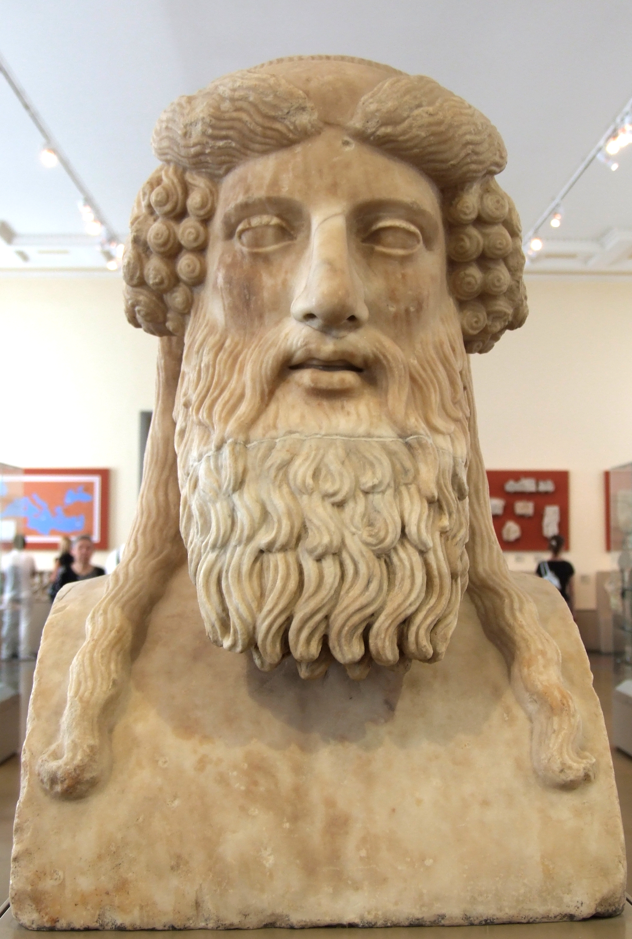 Herm of a bearded god (Hermes ?). Roman copy of the Greek original of the last quarter of the 5 c. BC.